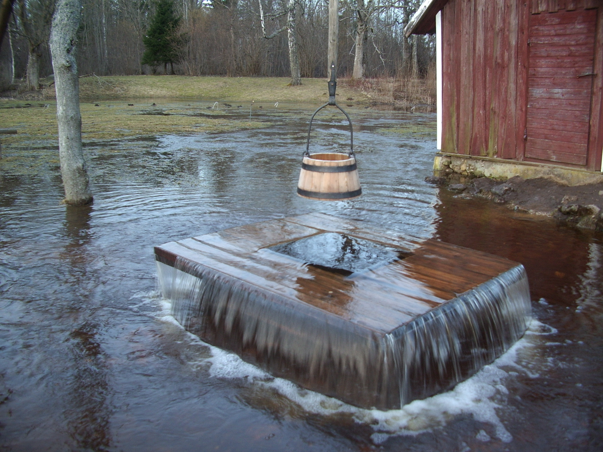 Witch's well at Sulu farm, Kose parish, Estonia